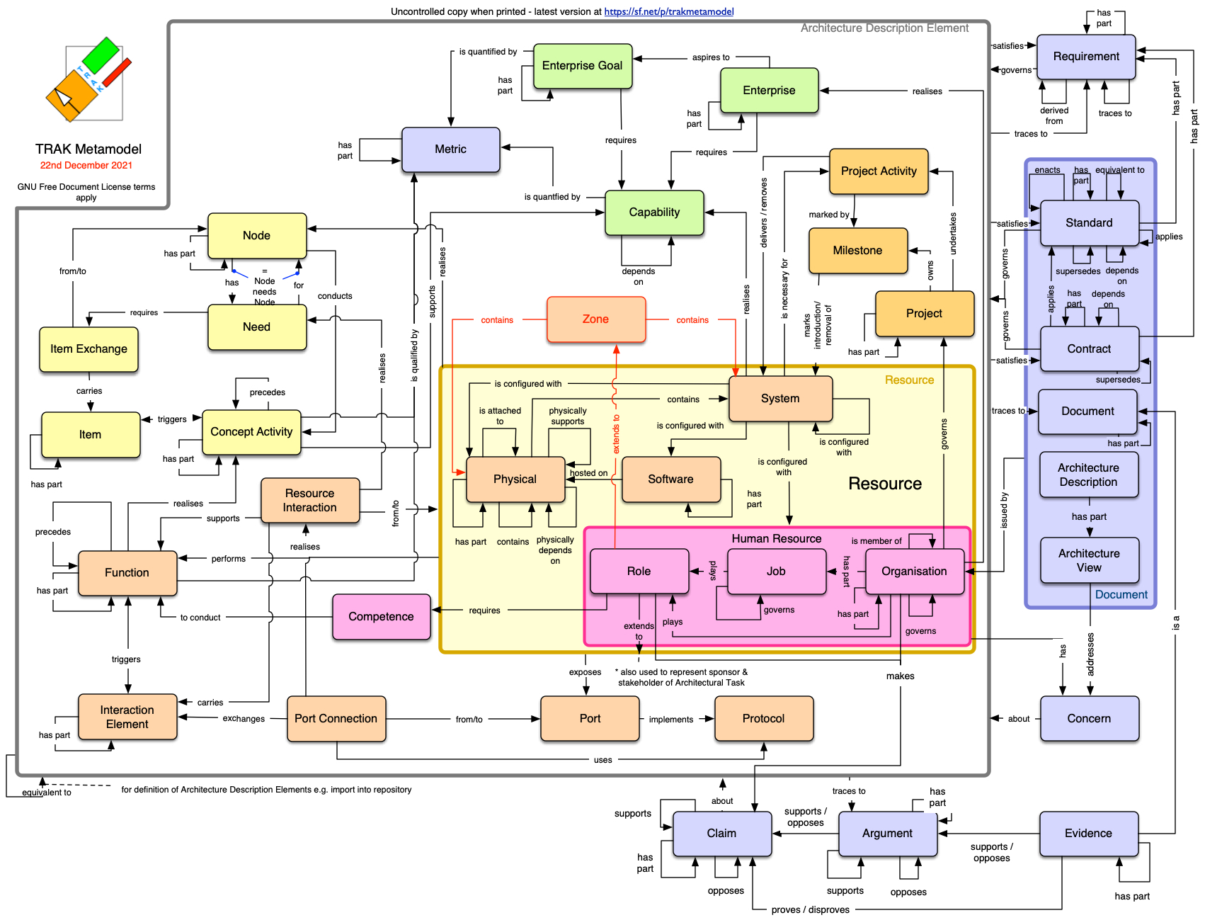 Architecture Description Elements (elements that may appear in TRAK views) within the TRAK metamodel. Defines the allowed triples / tuples.